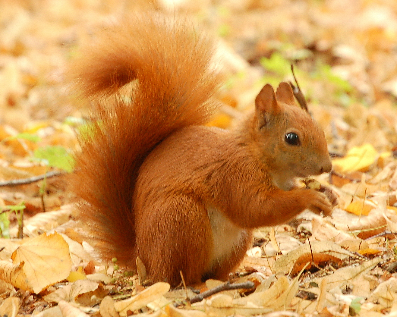 Red squirrel in Lazienki Park - Warsaw, Poland